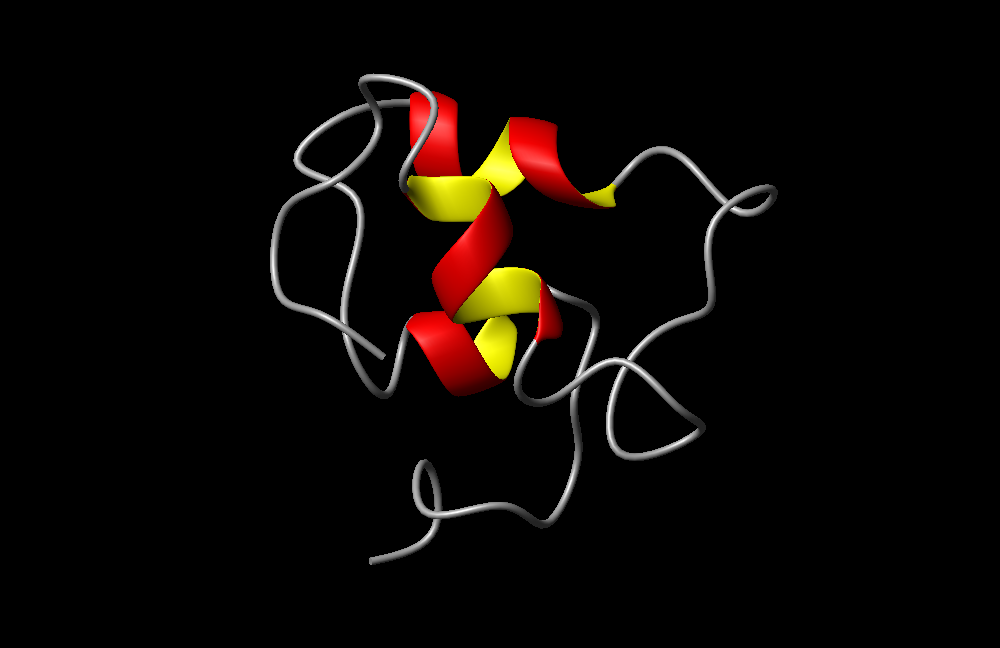 Schematic structure of Insulin-like growth factor-1. Figure prepared from pdb-file using the program MolMol: Koradi, R., Billeter, M., and Wüthrich, K. (1996) J Mol Graphics 14, 51-55.MOLMOL: a program for display and analysis of macromolecular structures.